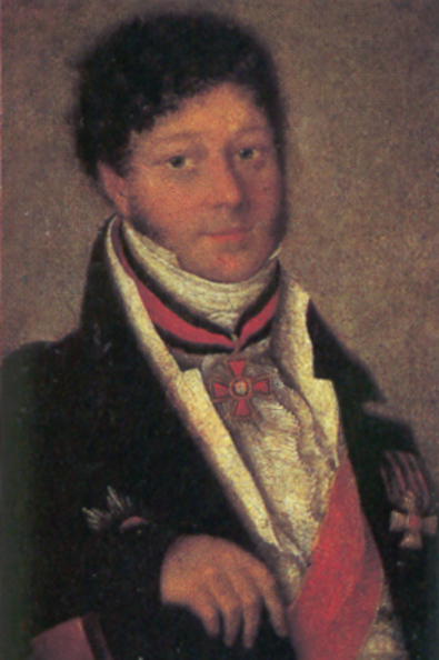 Portrait of Pyotr_Nikiforovich Ivashev (1767–1838), a Russian major general.